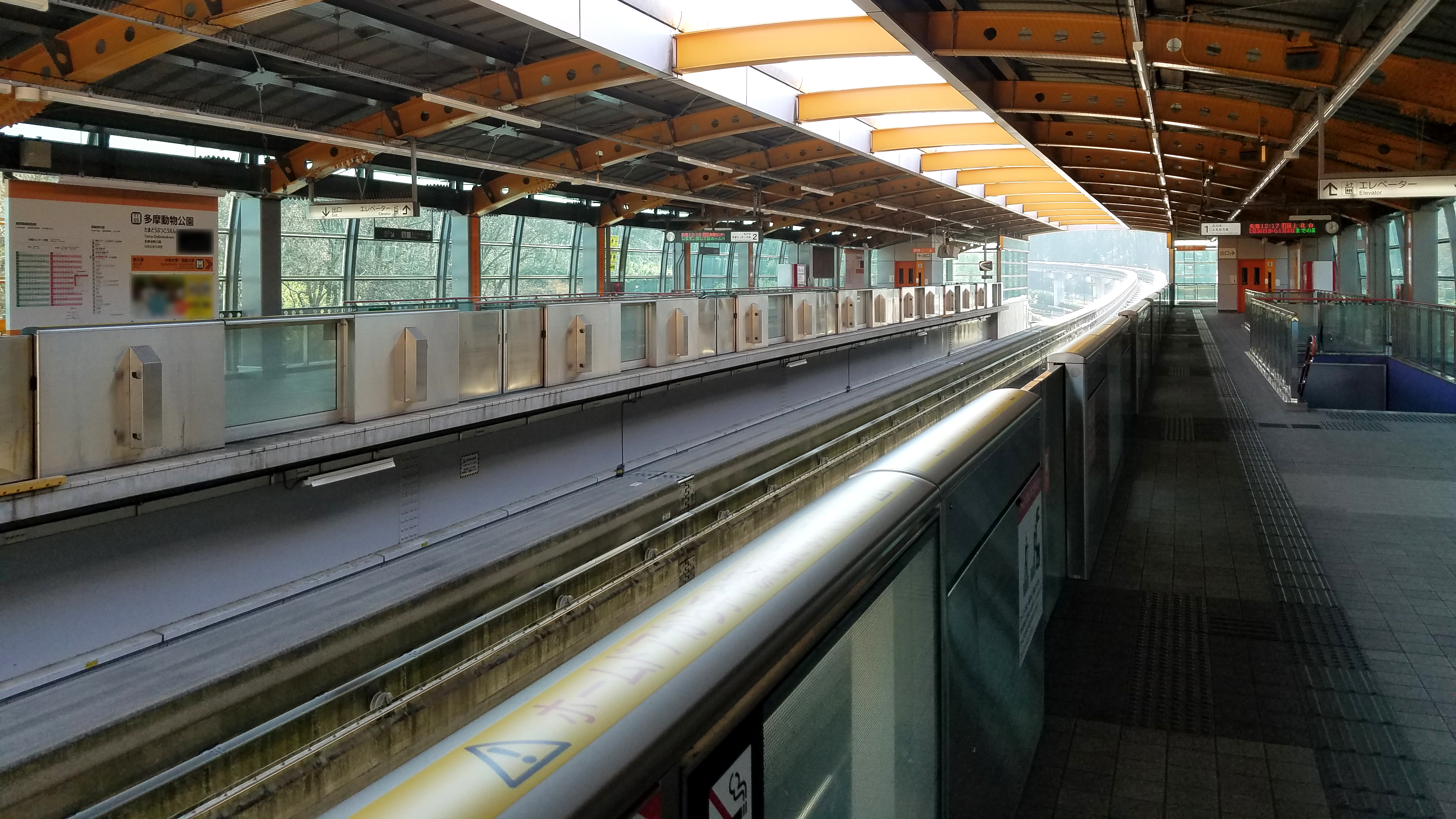 The platforms at Tama-Dōbutsukōen Station on the Tama Toshi Monorail in Hino city, Tokyo, Japan